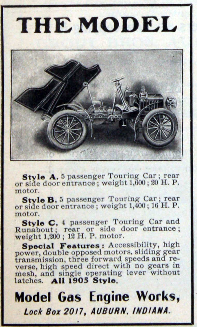 1905 Model 12